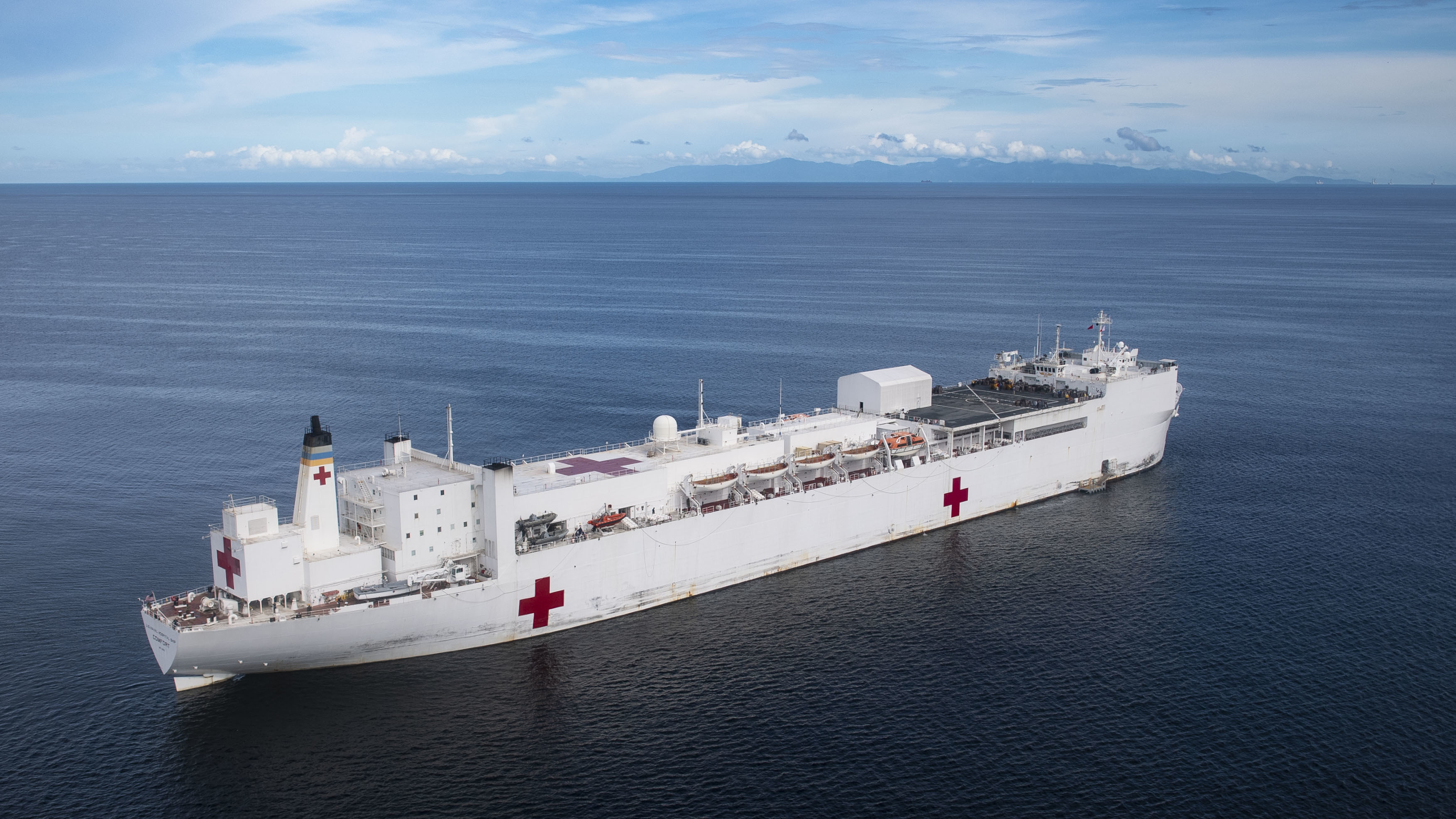 190903-N-IA905-1016 LA BREA, Trinidad And Tobago (Sept. 3, 2019) The hospital ship USNS Comfort (T-AH 20) is anchored off the coast of La Brea, Trinidad and Tobago as the ship prepares for a five-day medical mission. Comfort is working with health and government partners in Central America, South America, and the Caribbean to provide care on the ship and at land-based medical sites, helping to relieve pressure on national medical systems strained by an increase in Venezuelan migrants. (U.S. Navy photo by Mass Communication Specialist 2nd Class Morgan K. Nall/Released)